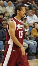 Justin Thompson of Rider in 2009.